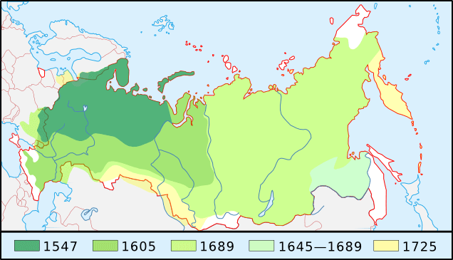 Growth of Russia between 1547 and 1725: 1547 – coronation of Ivan IV (1530-1584) as the first Russian tsar 1605 – death of tsar Boris Godunov, beginning of the Time of Troubles 1689 – Treaty of Nerchinsk, left bank of Amur ceded to China 1689 – beginning of the reign of Peter I the Great (born in 1672) 1725 – death of Peter I the Great